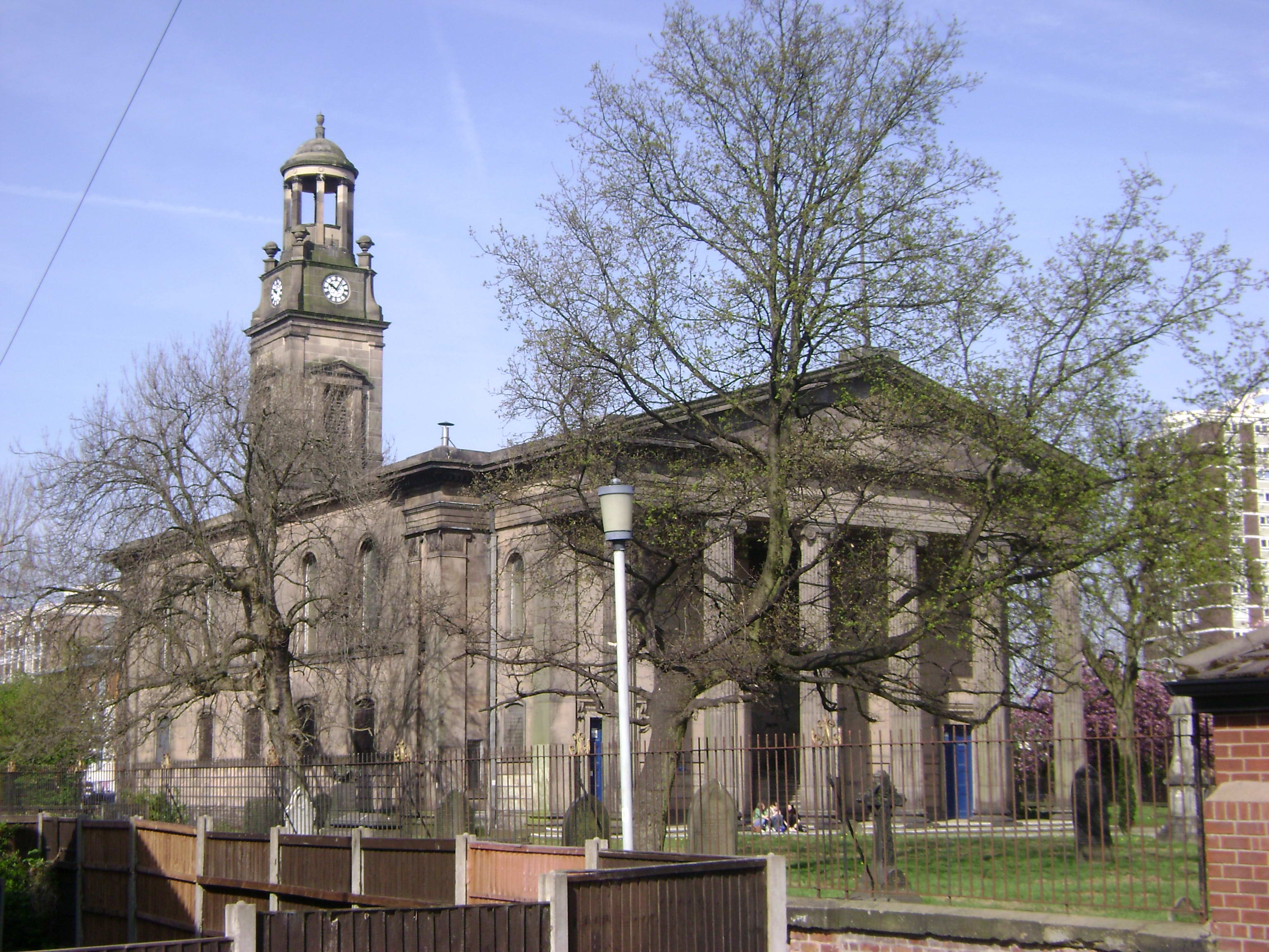 St Thomas's parish church, Stockport, Greater Manchester, seen from the east from Higher Hillgate